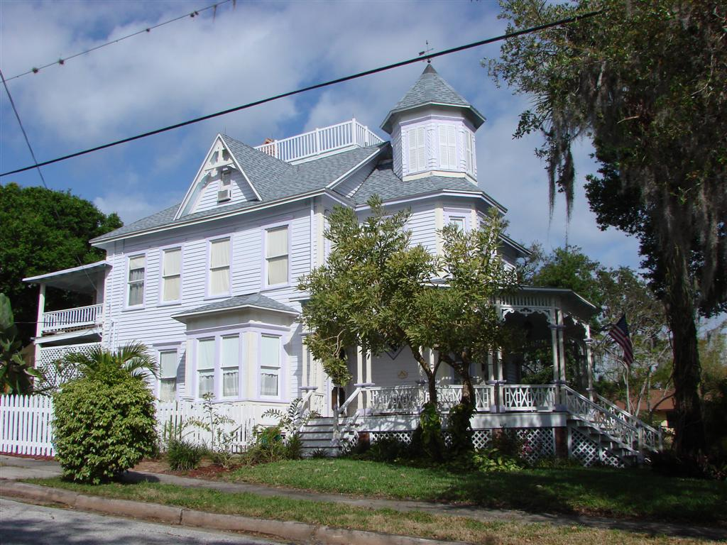 William H. Gleason House in Melbourne, Florida. March 24, 2007.